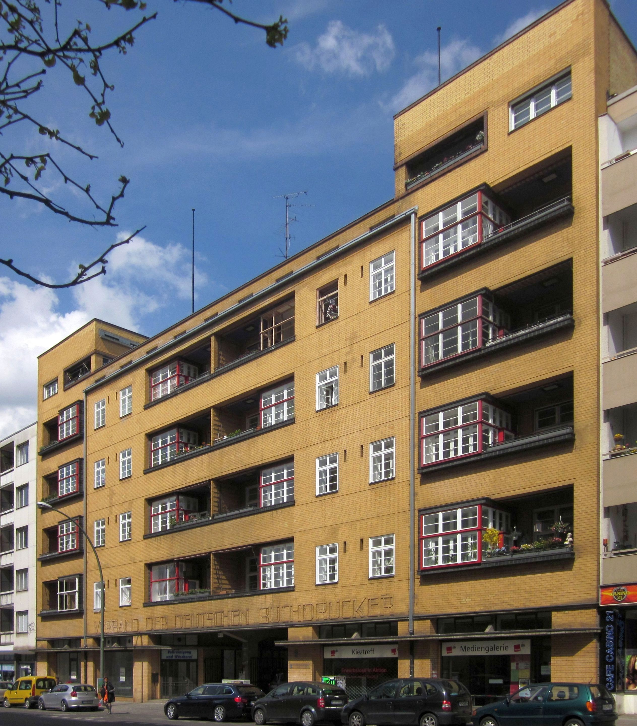 Former trade union building of the German book printers at Dudenstraße No. 10 in Berlin-Kreuzberg. The complex was built from 1924 to 1926 to designs by Max Taut, Franz Hoffmann, and Karl Bernhard in the New Objectivity architectural style; the interior was altered in 1951 by Max Taut. In addition to apartments and shops, the front building originally housed the offices of the trade union; a printing shop and assembly rooms were located in the rear building; there are also two smaller side wings. The complex is now owned by the trade union ver.di. It has been designated a historical landmark.